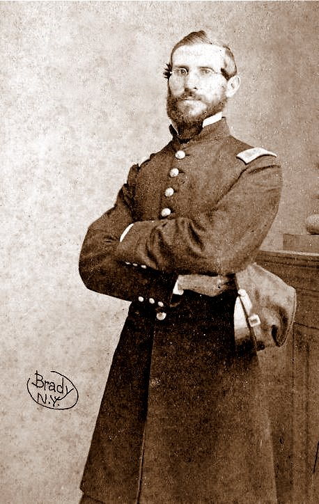 1864 CIVIL WAR GENERAL SLEMMER CDV PHOTO MATHEW BRADY